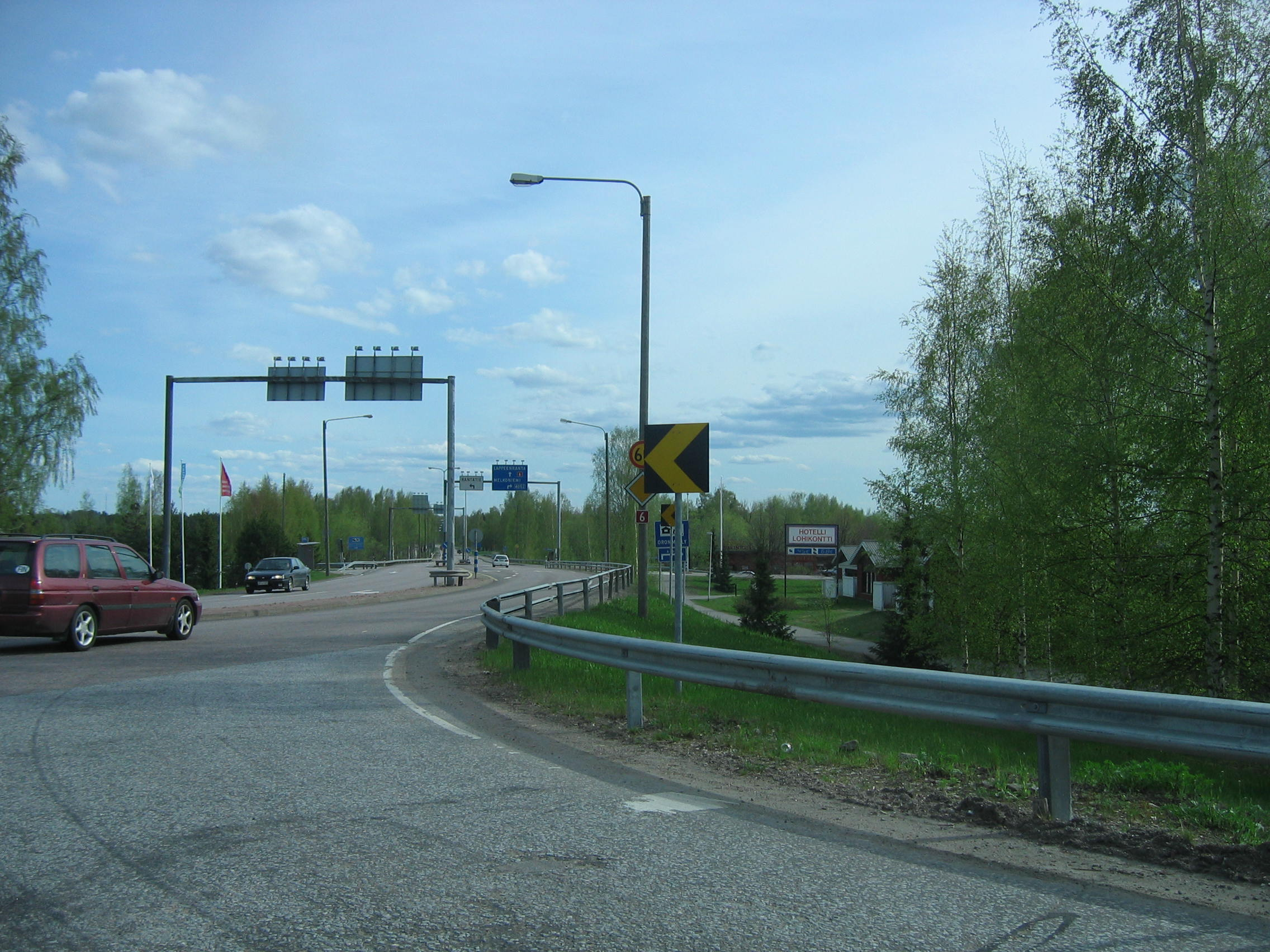 Crossing on the highway 6 in the Särkisalmi village in Parikkala, Finland